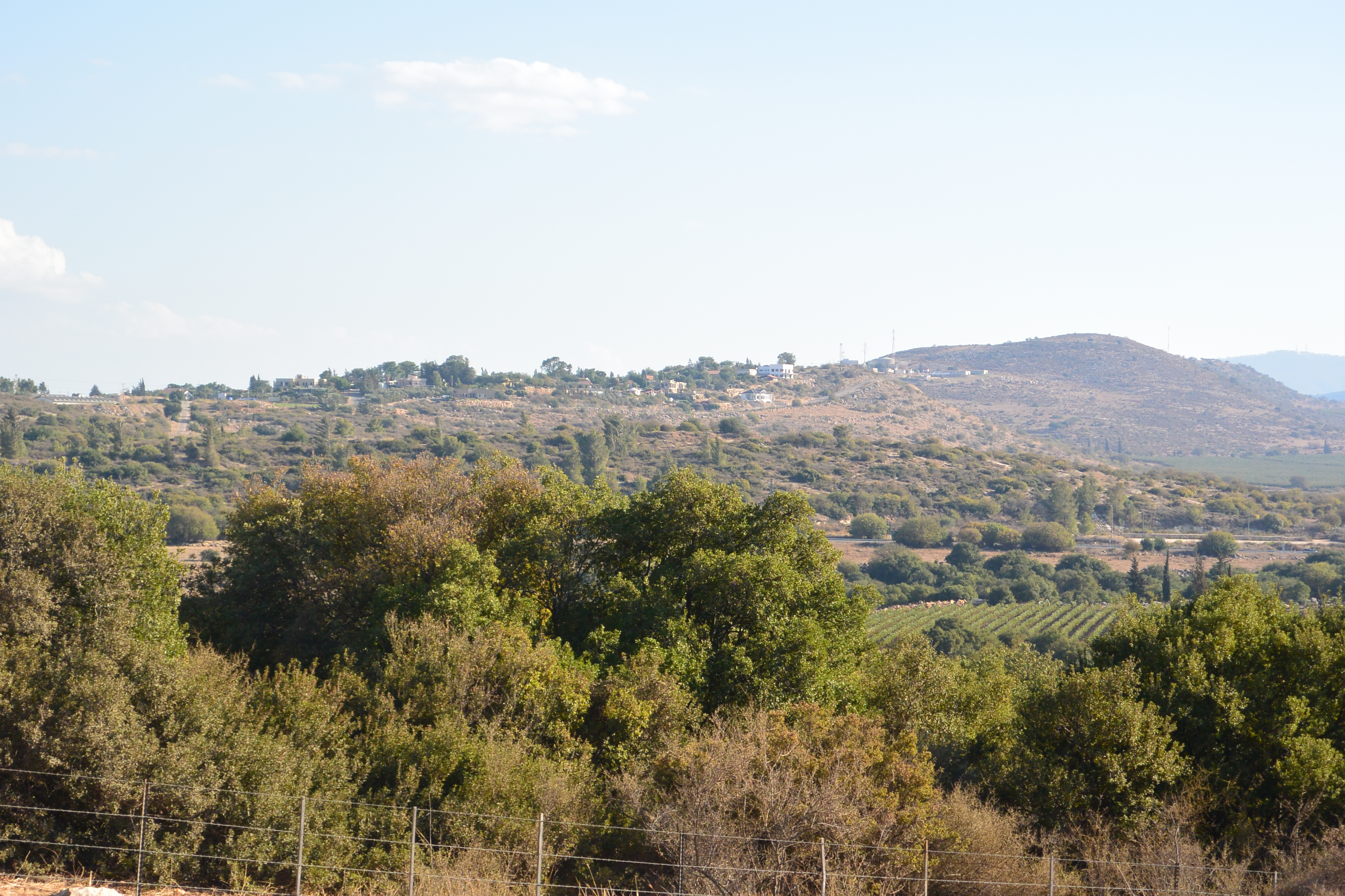 View to Kibbutz Ramot Naftali from north at highway 886.